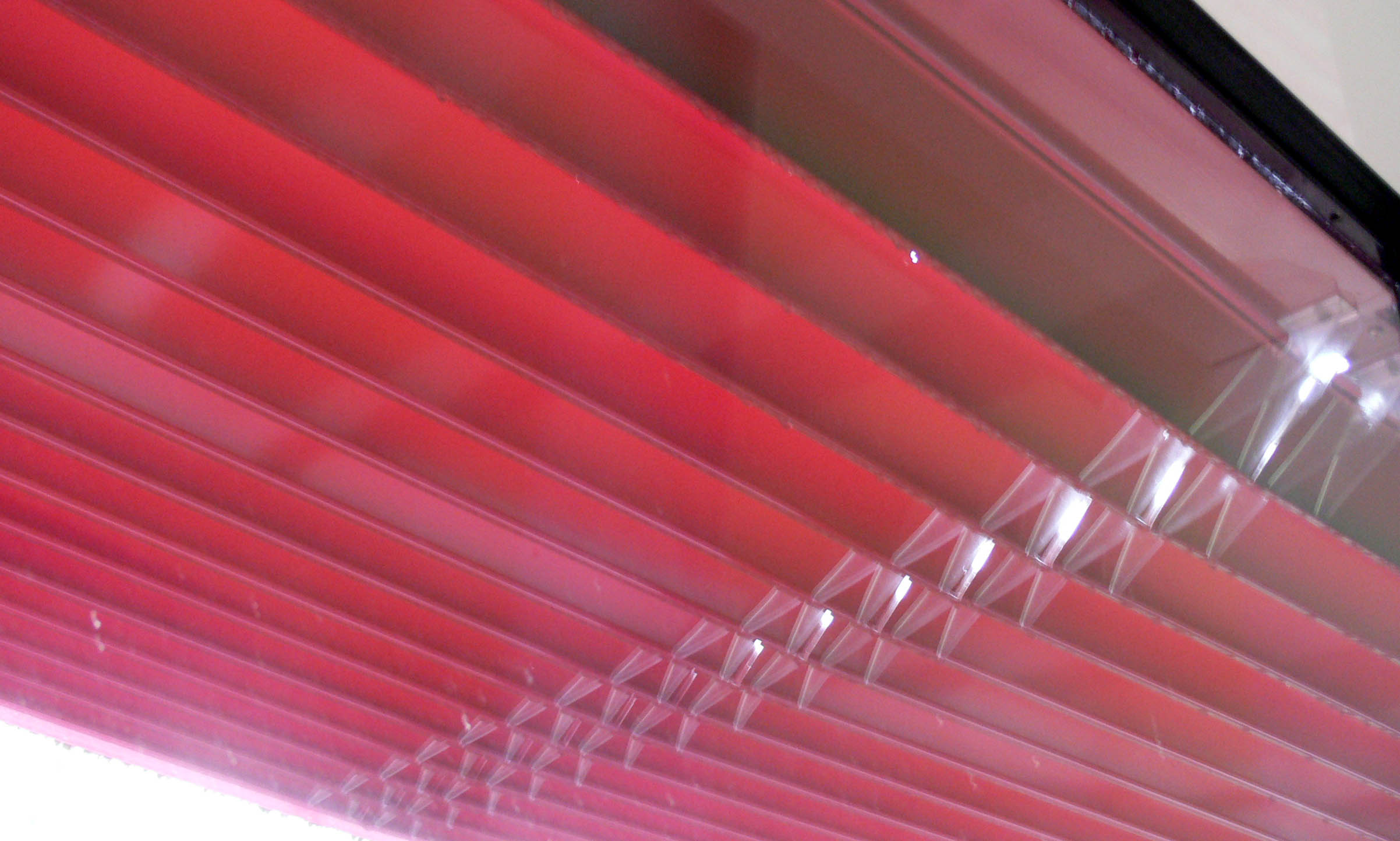 Detail of Architectural "Brise soleil" in a Retirement home (with ecological & energy efficiency building), in Trith-Saint-Léger, in north of France, (dept : 59) in Nord-Pas-de-Calais region, made with ecological principles.